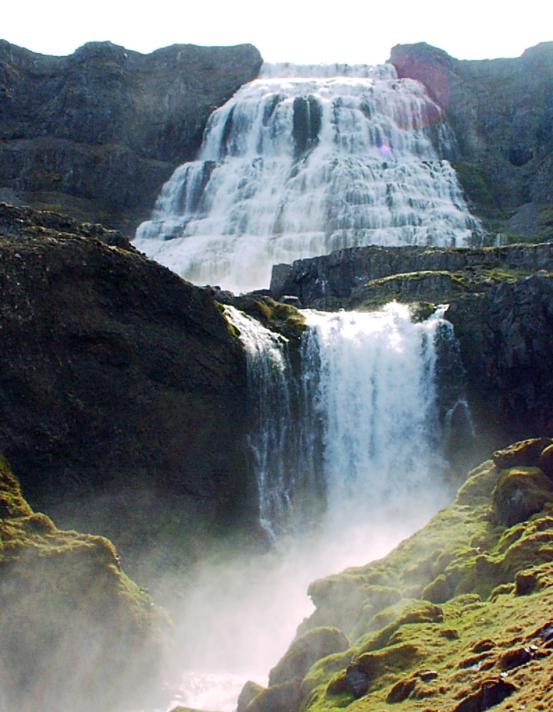 The Fjallfoss, a Waterfall in the Westfjords of Iceland